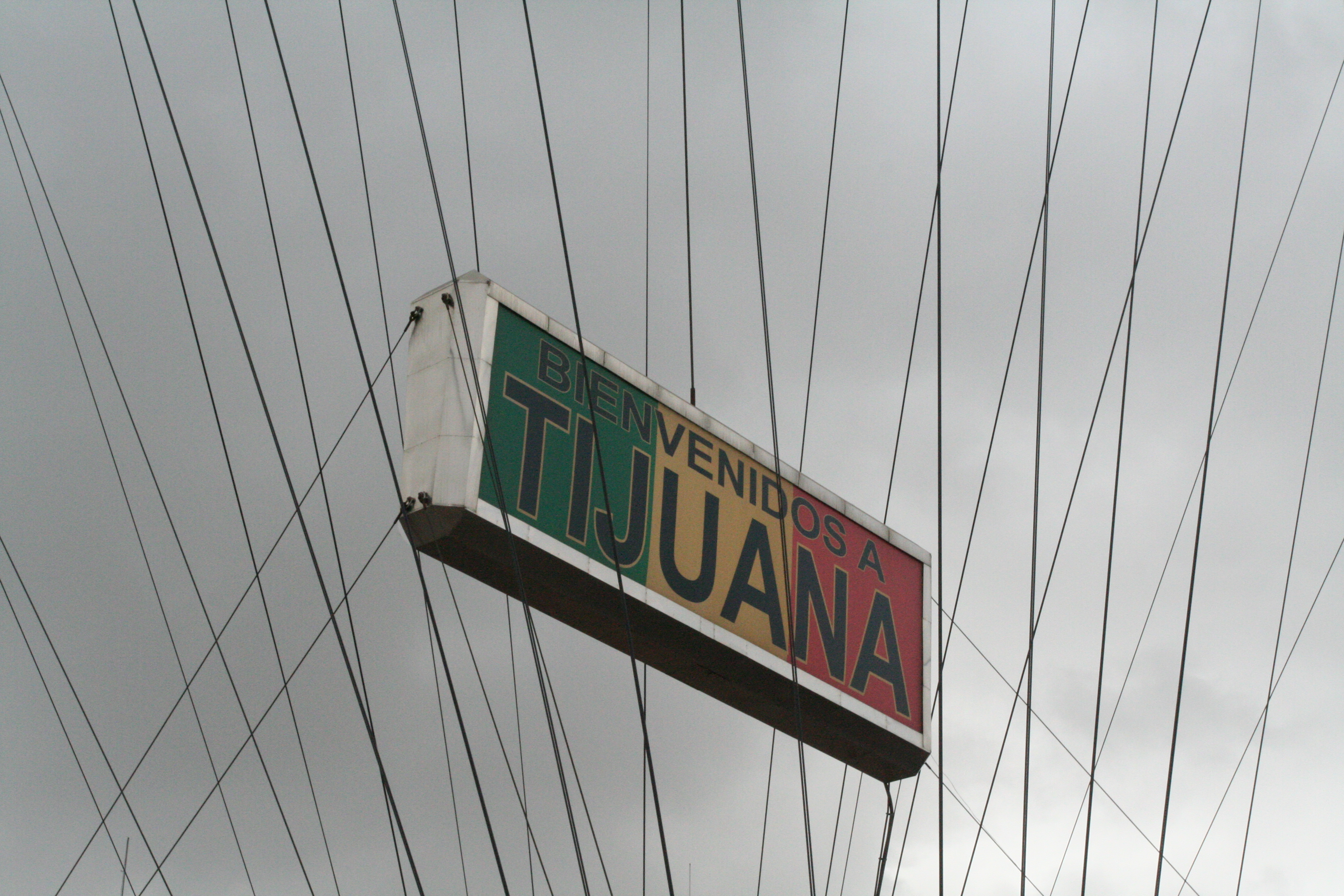 Bienvenidos a Tijuana – Welcome to Tijuana Mexico - archway Photo by Johntex